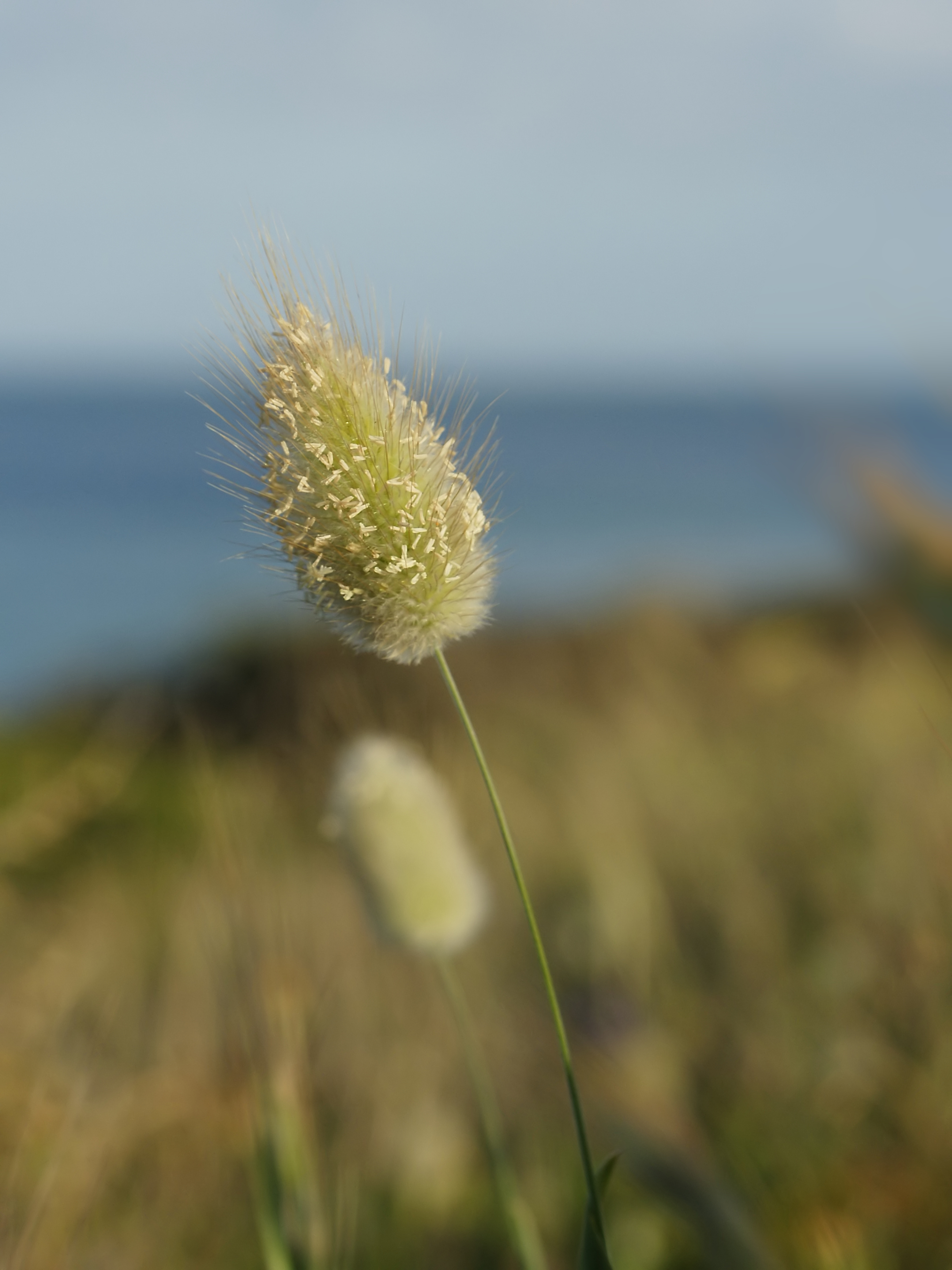 Harestail grass. Sardinia, Italy